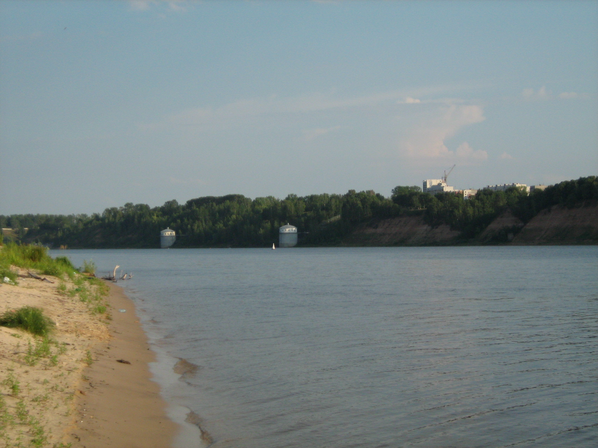 Kstovo new housing developments can be seen from the Volga